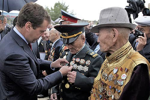 ULAN BATOR. Ceremony presenting Russian state decorations to Mongolian veterans of the Battle of Khalkhin Gol.